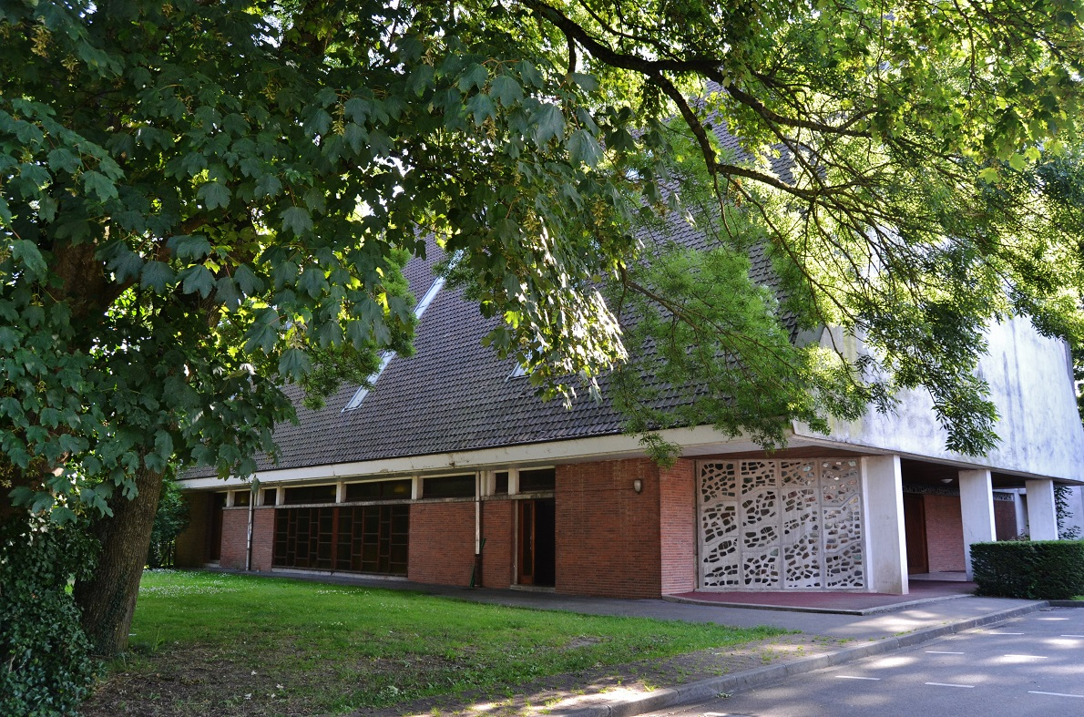 L'église